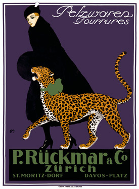 P. Rückmar & Co, Zurich - Furriers